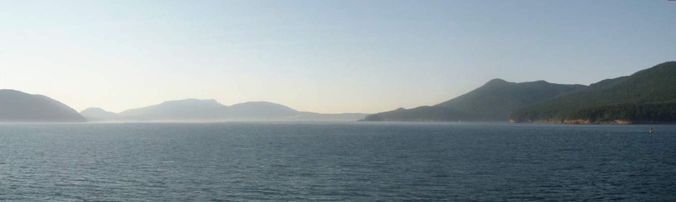 The San Juan Islands